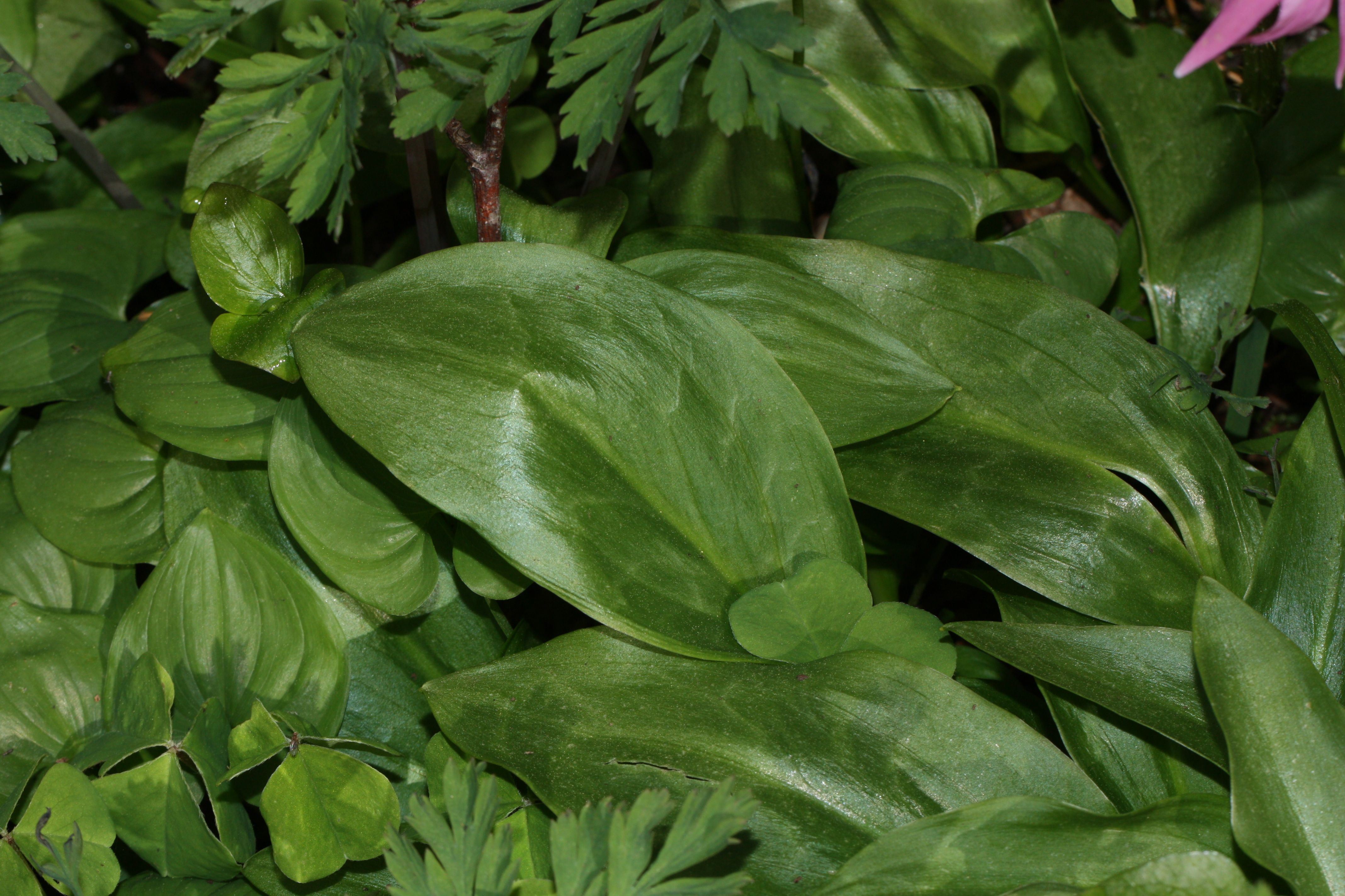 Pink Fawn-lily, Coast Fawn-lily, Mahogany Fawn-lily Viewpoint location: Saddle Mountain Trail, Saddle Mountain State Natural Area Viewpoint elevation: 535 meter (1755 ft) Location source: Garmin GPSmap 60CSx Location Datum: WGS84